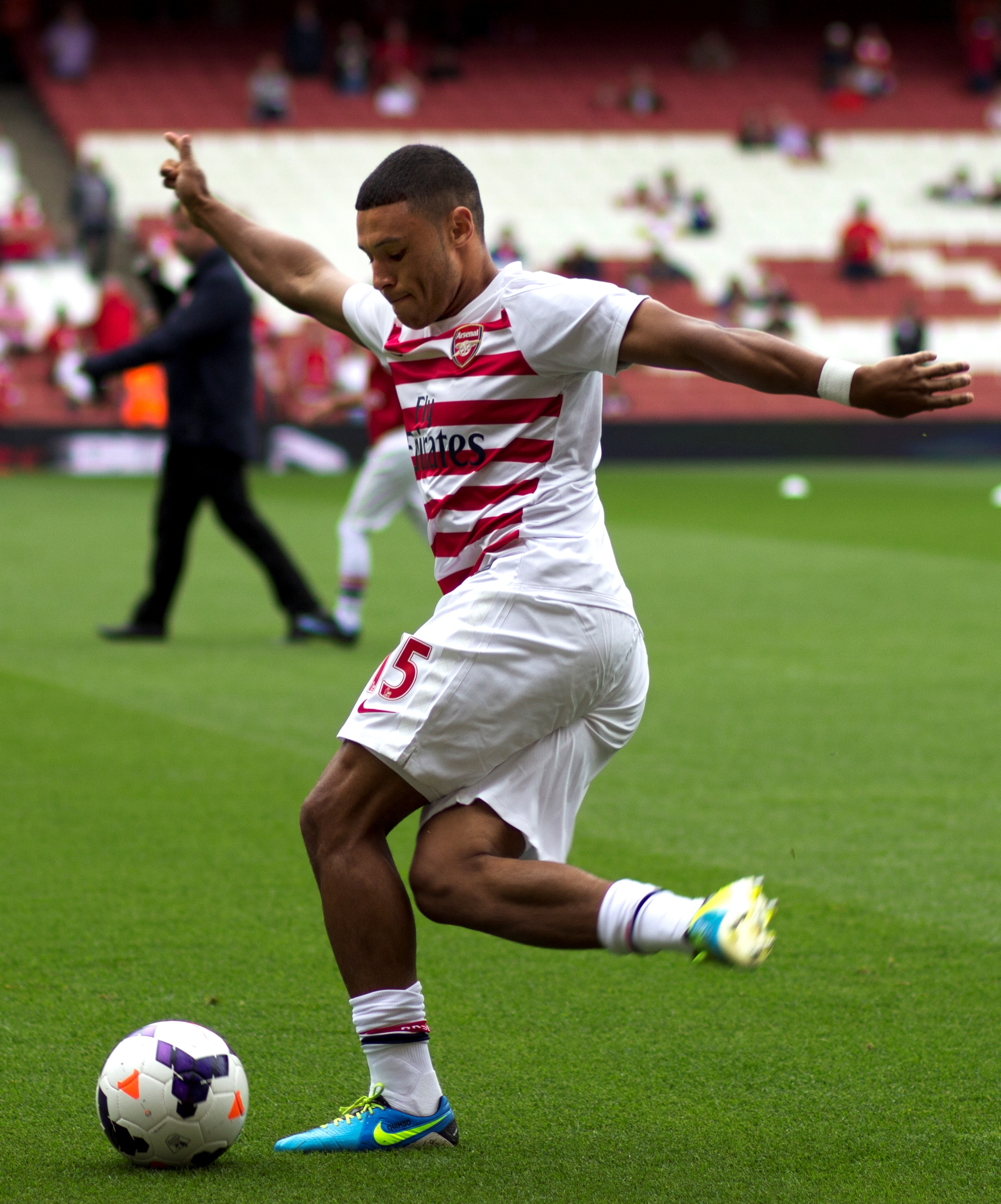 Alex Oxlade-Chamberlain performing a rabona while warming up for Arsenal on 17 August 2012.